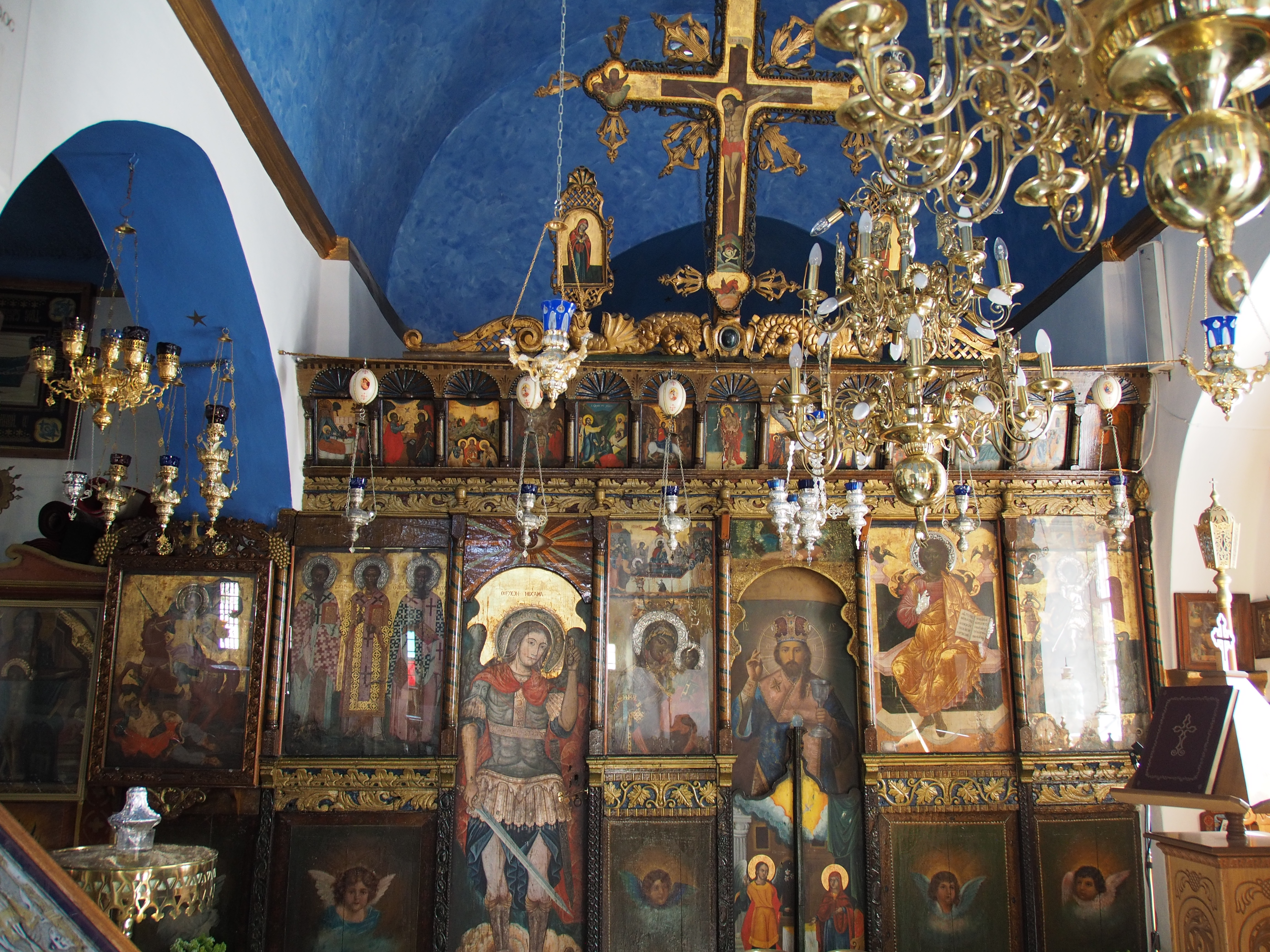 Church of Saint George, Mykonos, Greece